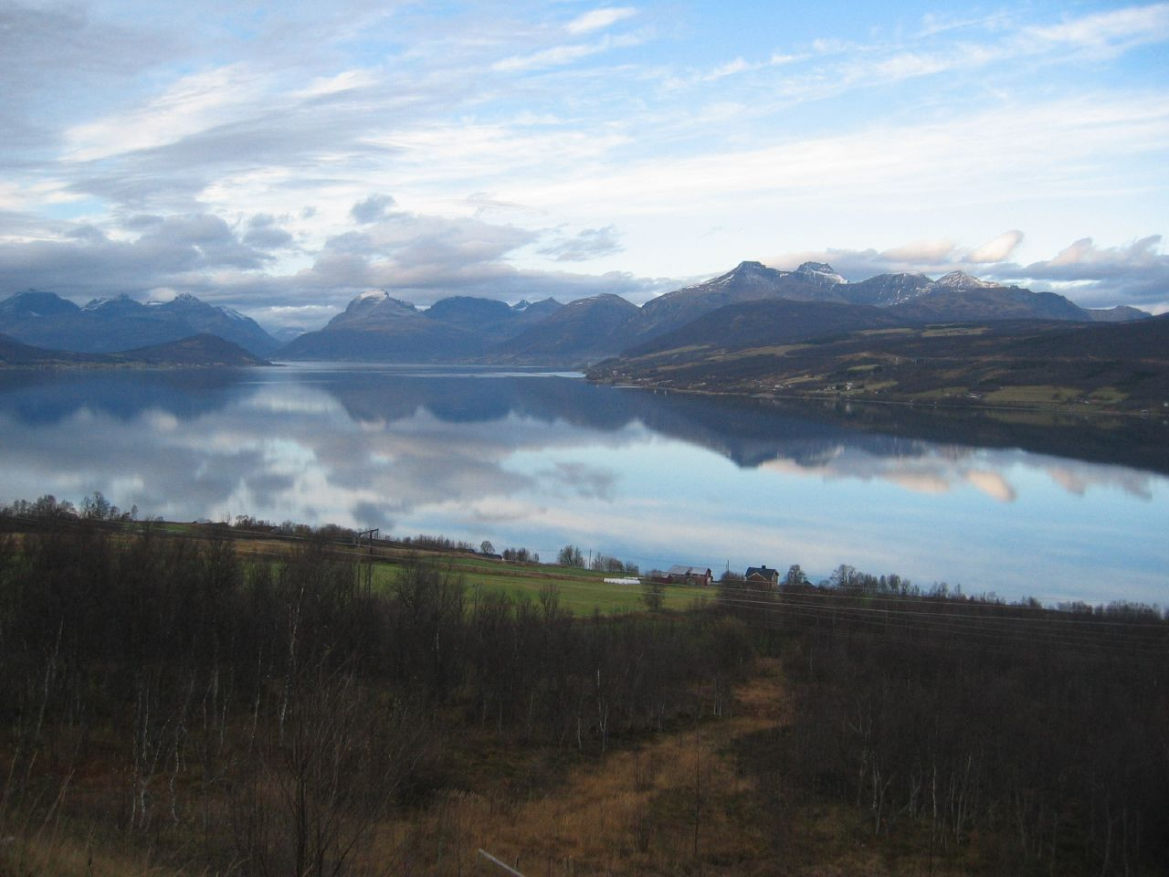 From Balsfjord, Troms, Norway